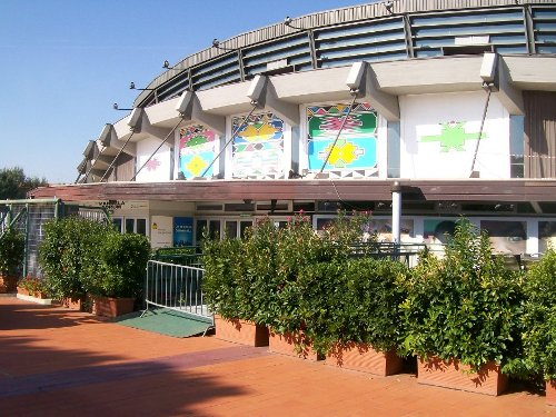 The picture shows the entrance of the Nelson Mandela Forum in Florence, Italy.